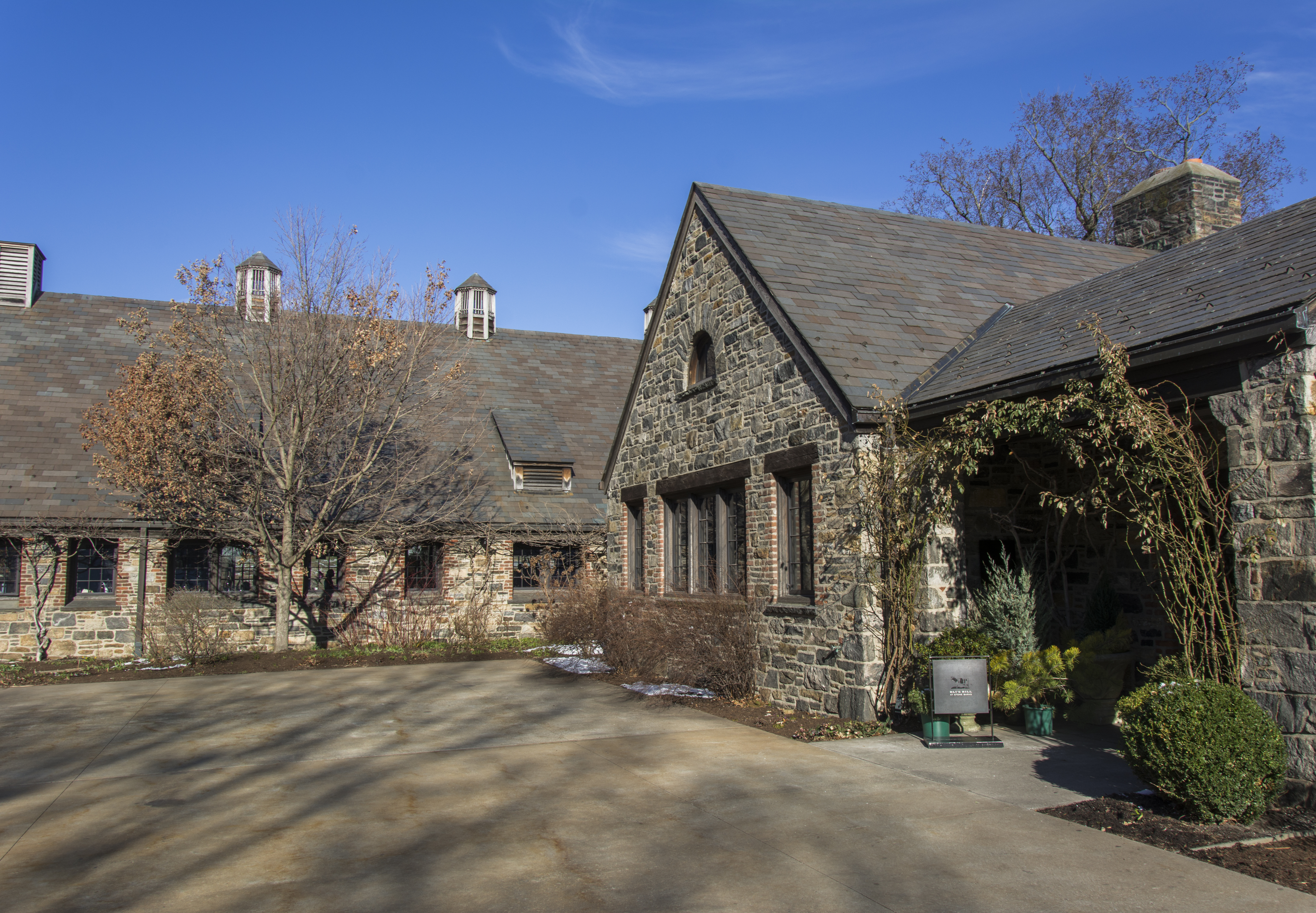 The Stone Barns Center for Food & Agriculture and Blue Hill at Stone Barns, 2017.